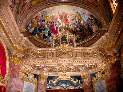 Organ gallery of the Basilica